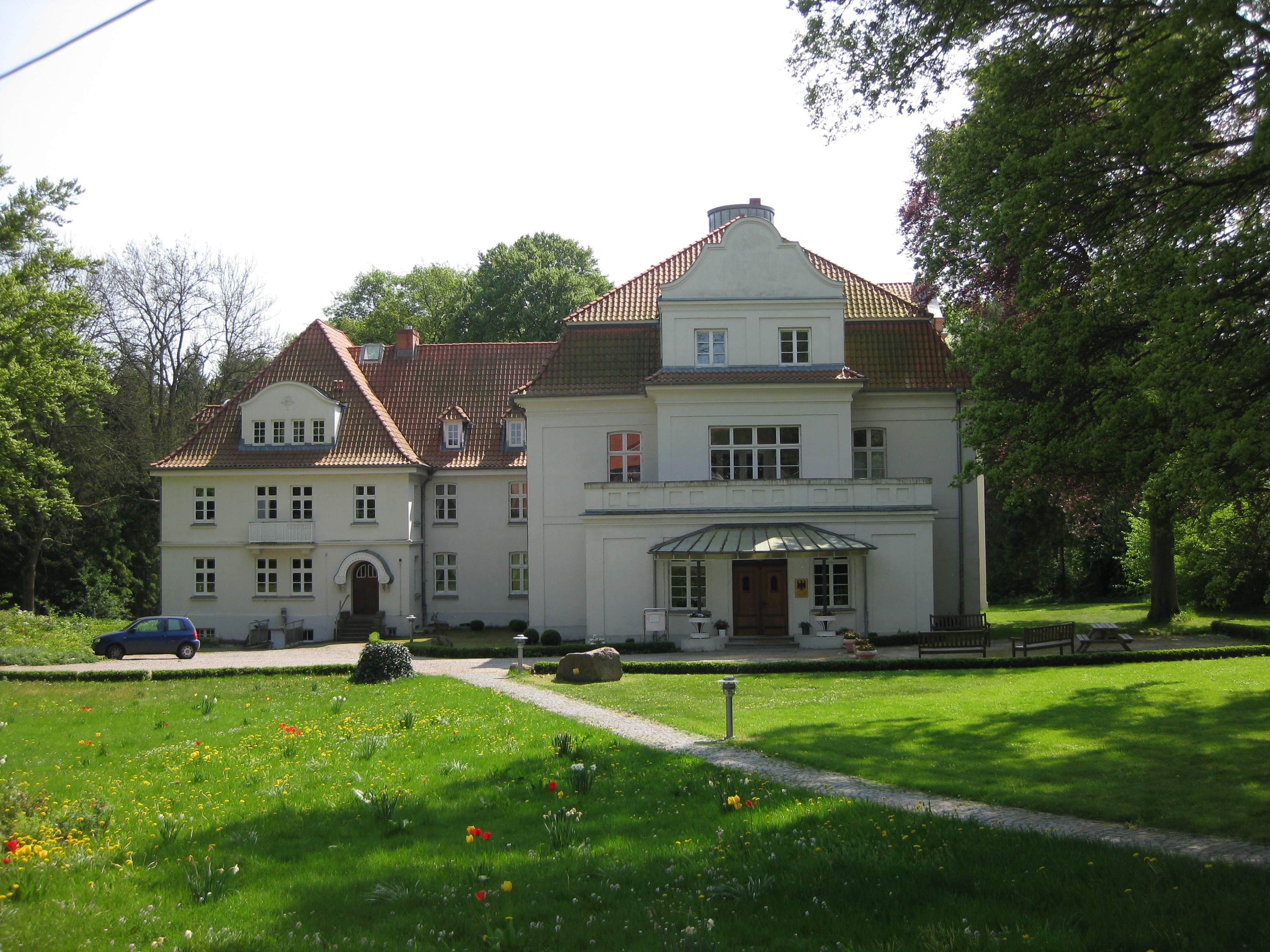 Institut für Ökologischen Landbau of the Johann Heinrich von Thünen-Institut at Gut Trenthorst in Westerau municipality, Stormarn district.